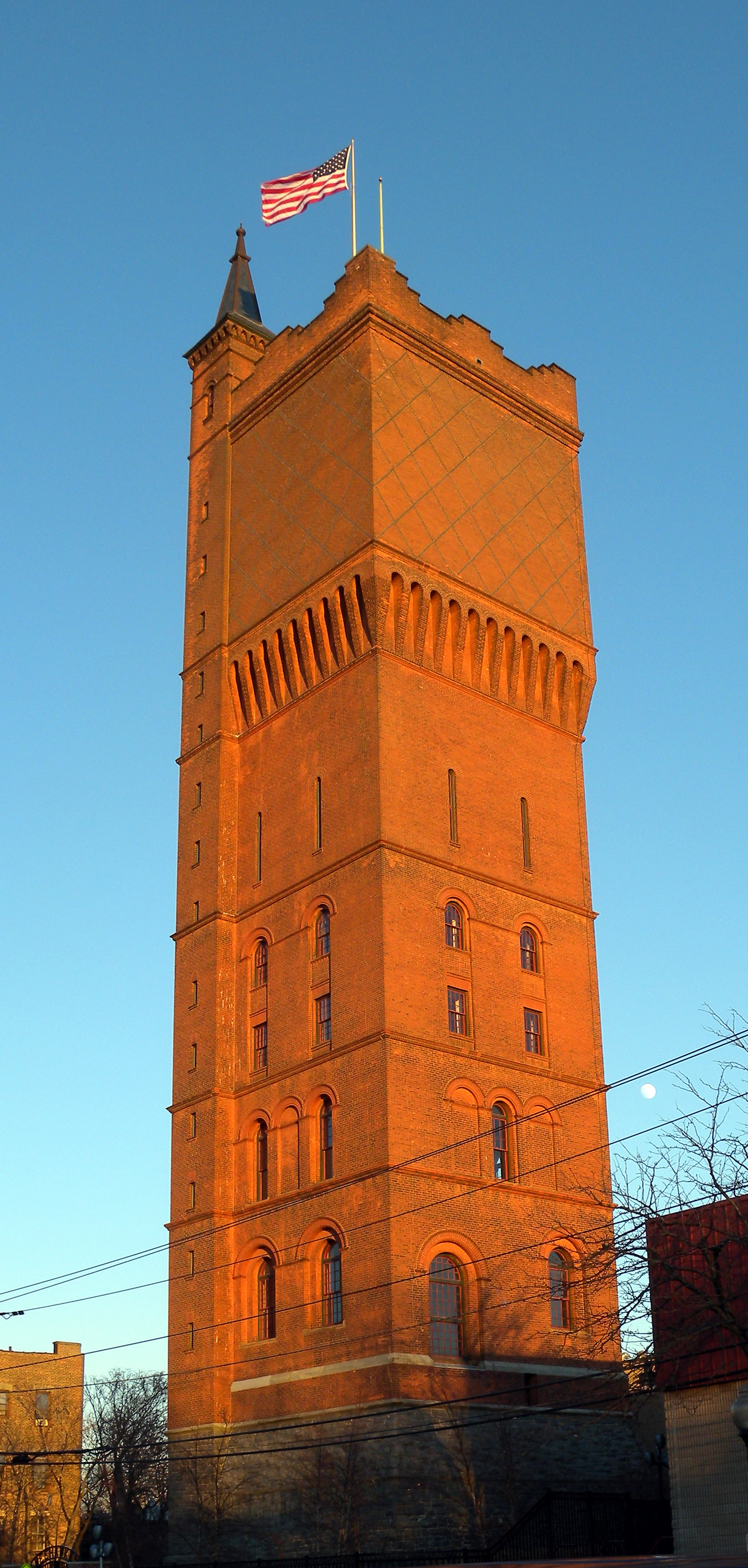 Looking east across Park Av at red tower of Hackensack Water Company Complex, now Water Tower Park, on a sunny late afternoon.